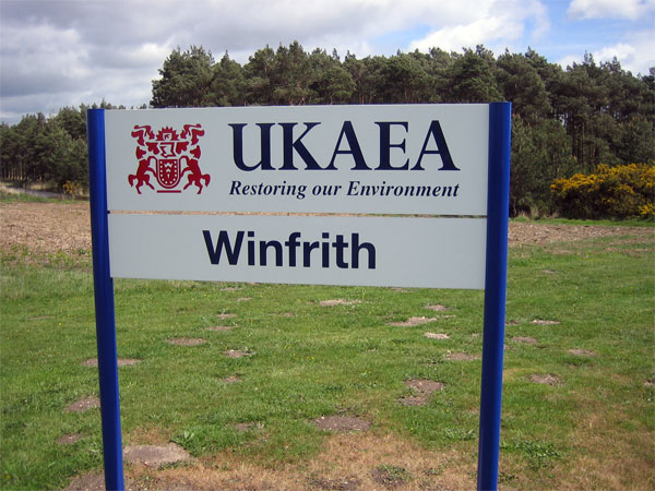 Winfrith UKAEA has been restoring Winfrith’s environment since the early 1990s. Around half of the civil nuclear research site has already been released for commercial use, and decommissioning will be fully complete by 2020, when Winfrith will become the UK’s first major nuclear site to be fully decommissioned. Be warned that photography of the site is not permitted. I was pounced on by security and after deleting pictures I had already taken, was able to negotiate this shot. Security at Winfrith is provided by the Civil Nuclear Constabulary, an armed police force that specialises in the protection of nuclear materials